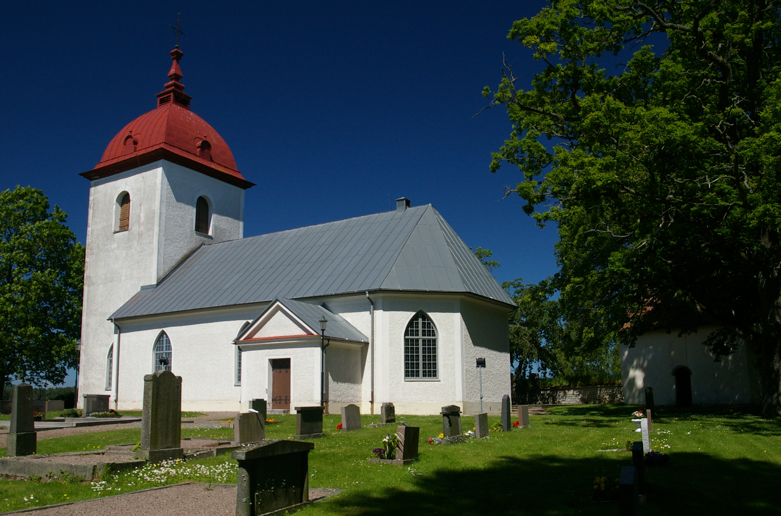 Acklinga kyrka (Swedish:Church of Acklinga) in Västergötland, Sweden